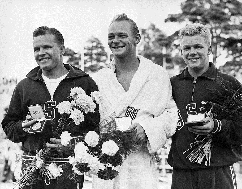 1952 Press Photo David Browning, Miller Anderson, Bobby Clothworthy Olympic Wins